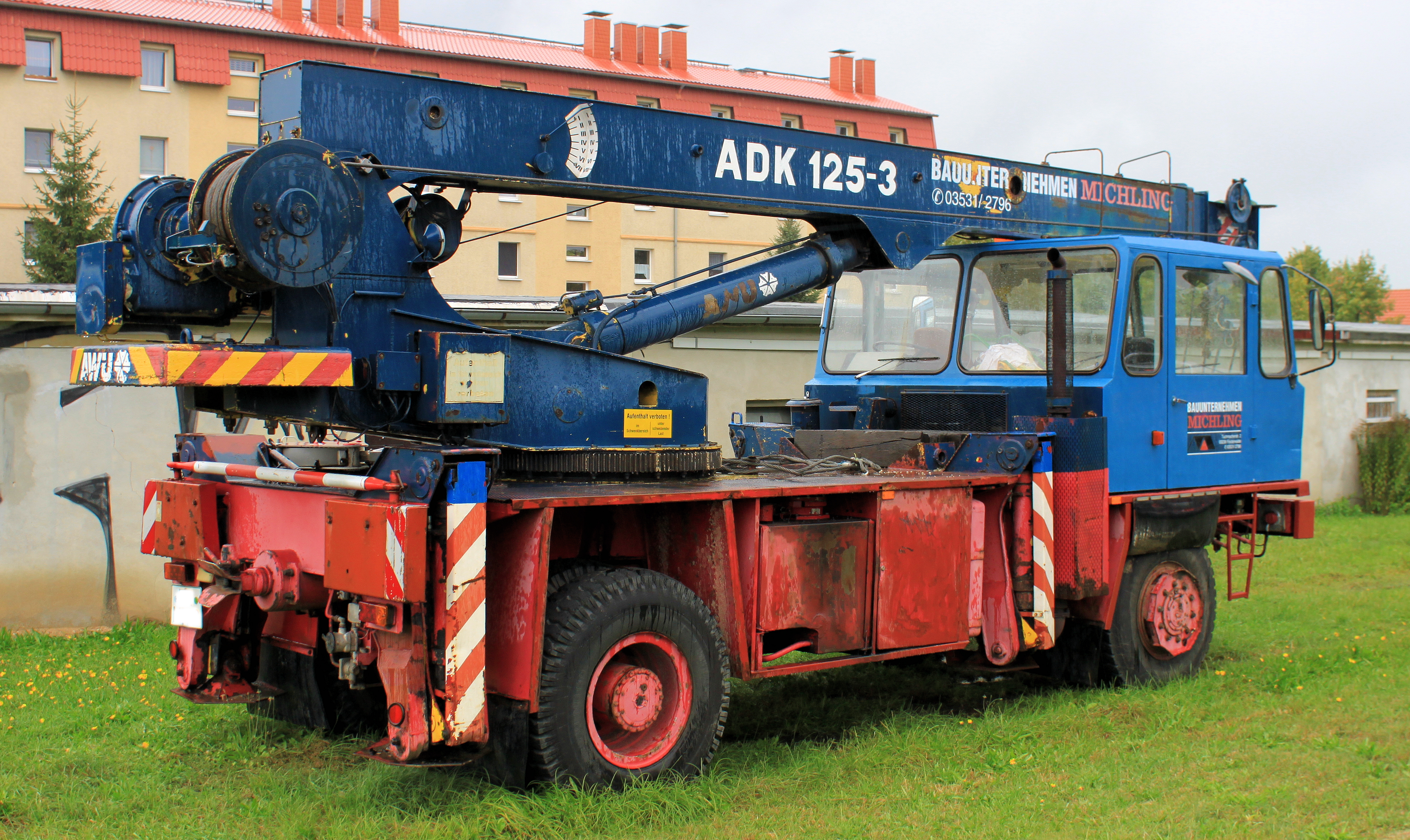 TAKRAF ADK 125-3